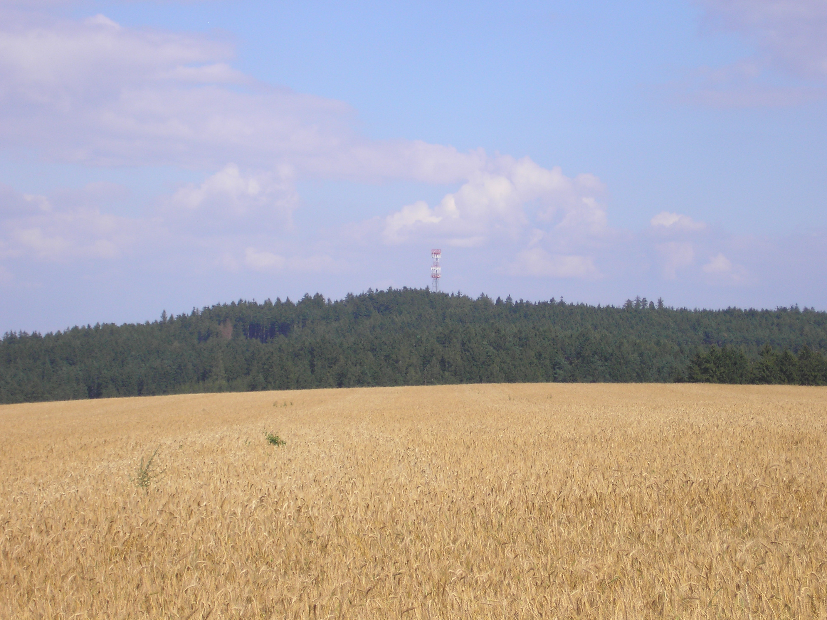 Hill Zadní hora near Třebíč, the Czech republic